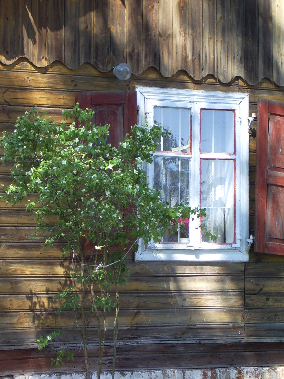 Old cottage house in Lipowo, Mazovia, Poland